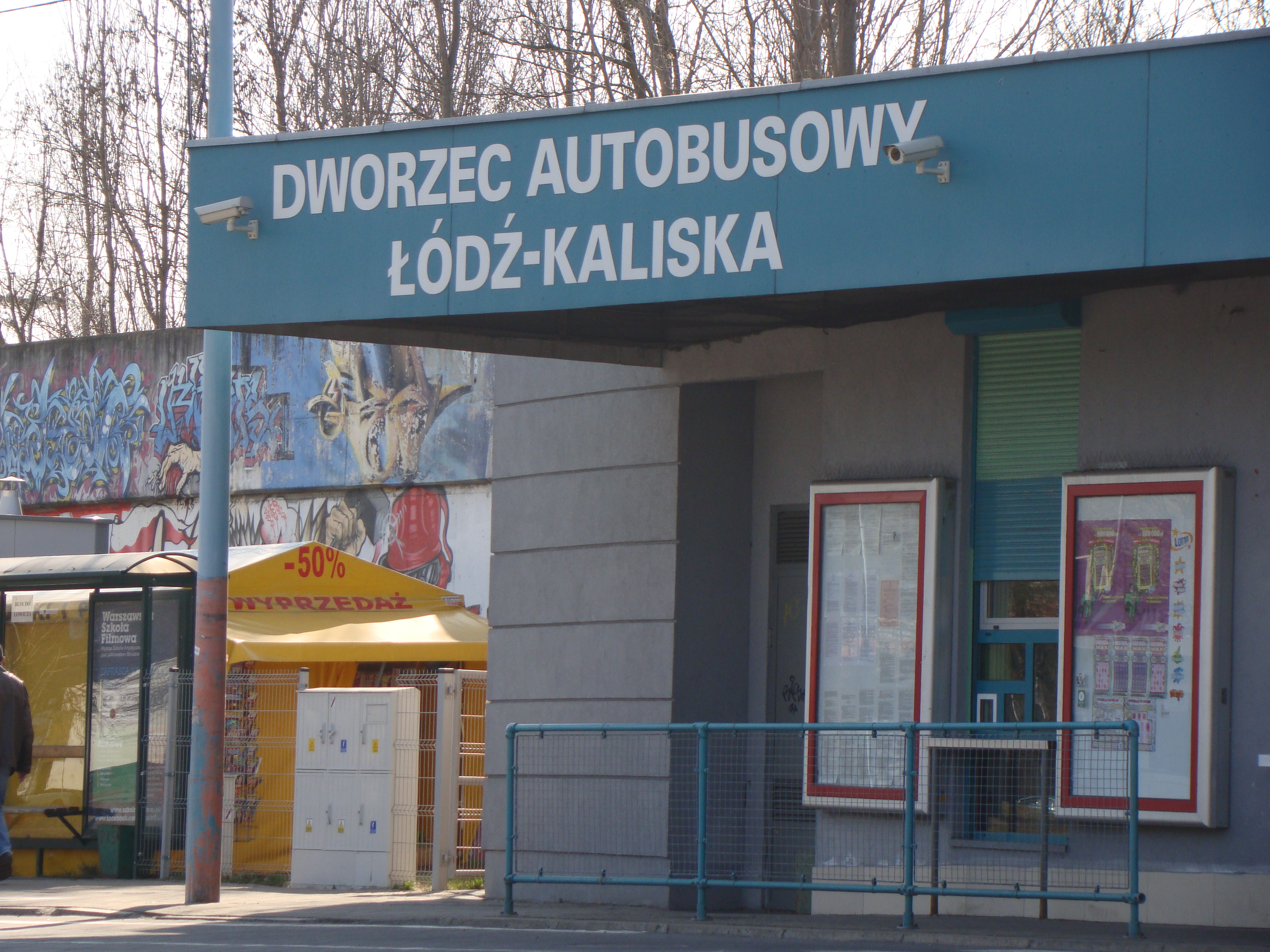 Bus station in Łódź